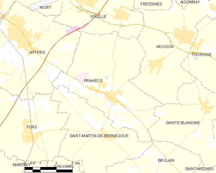 Map of French municipality Prahecq